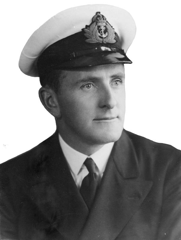 Gerard Broadmead Roope VC, Royal Navy: Place and date of deed, HMS GLOWWORM, Norwegian Sea, 8 April 1940.